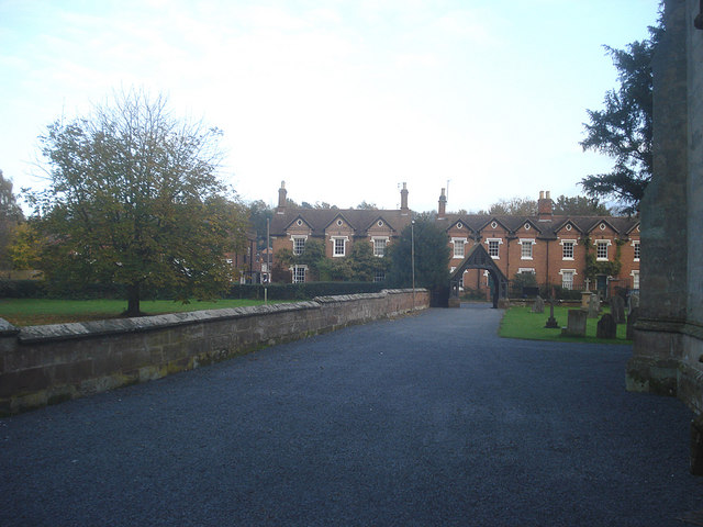 Entrance to St Andrew's Church From the church looking east to a fine row of mid-19th century houses built by the Ombersley Estate.